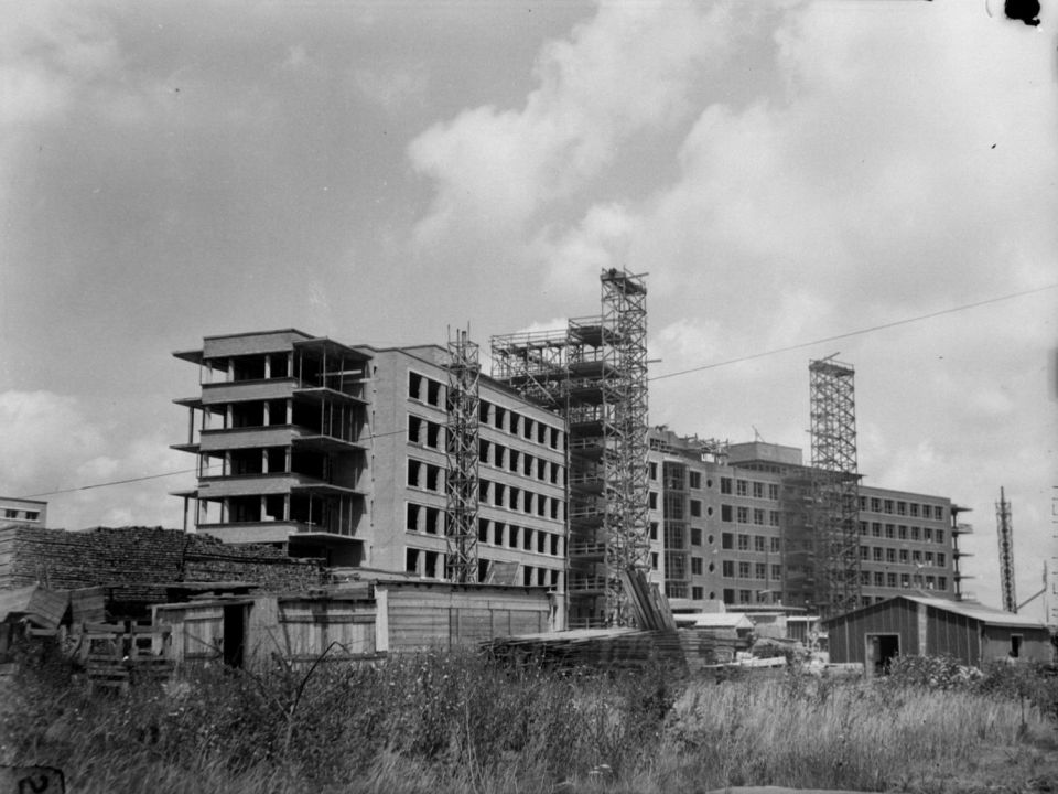 We see the end of the construction of the new hospital sanatorium St. Joseph (now Rosemont Pavilion Maisonneuve-Rosemont Hospital) on Rosemont Boulevard in Montreal.